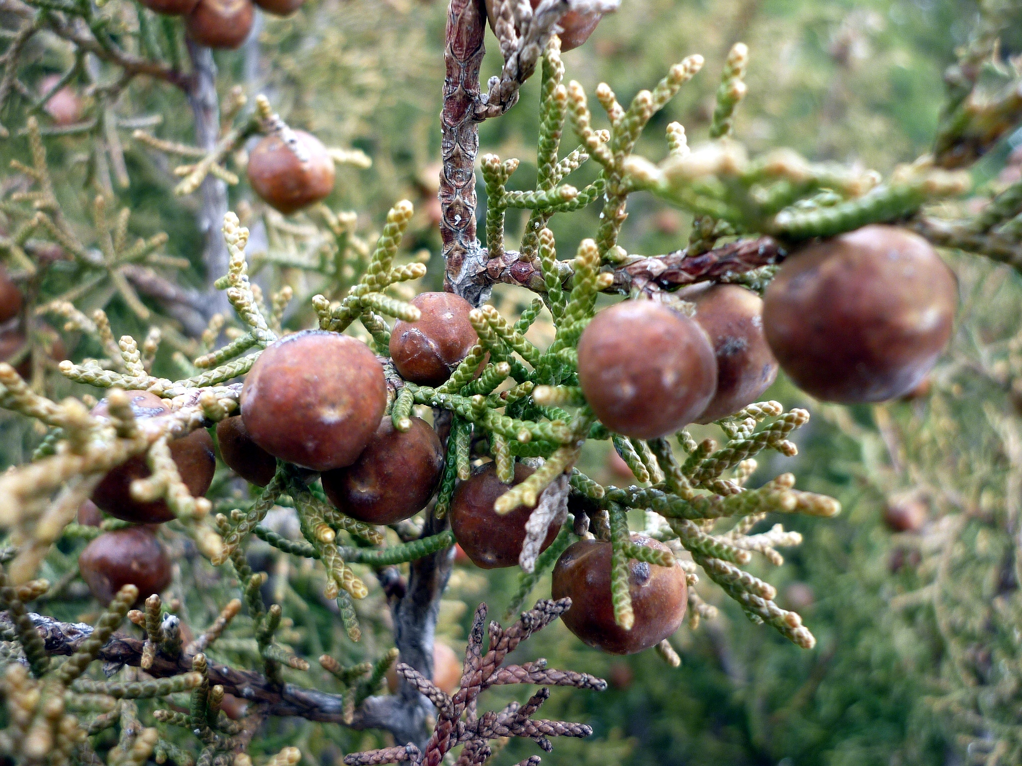 Phoenicean Juniper Juniperus phoenicea. In Lladurs (Solsonès-Catalunya), at 1,220 m. altitude.